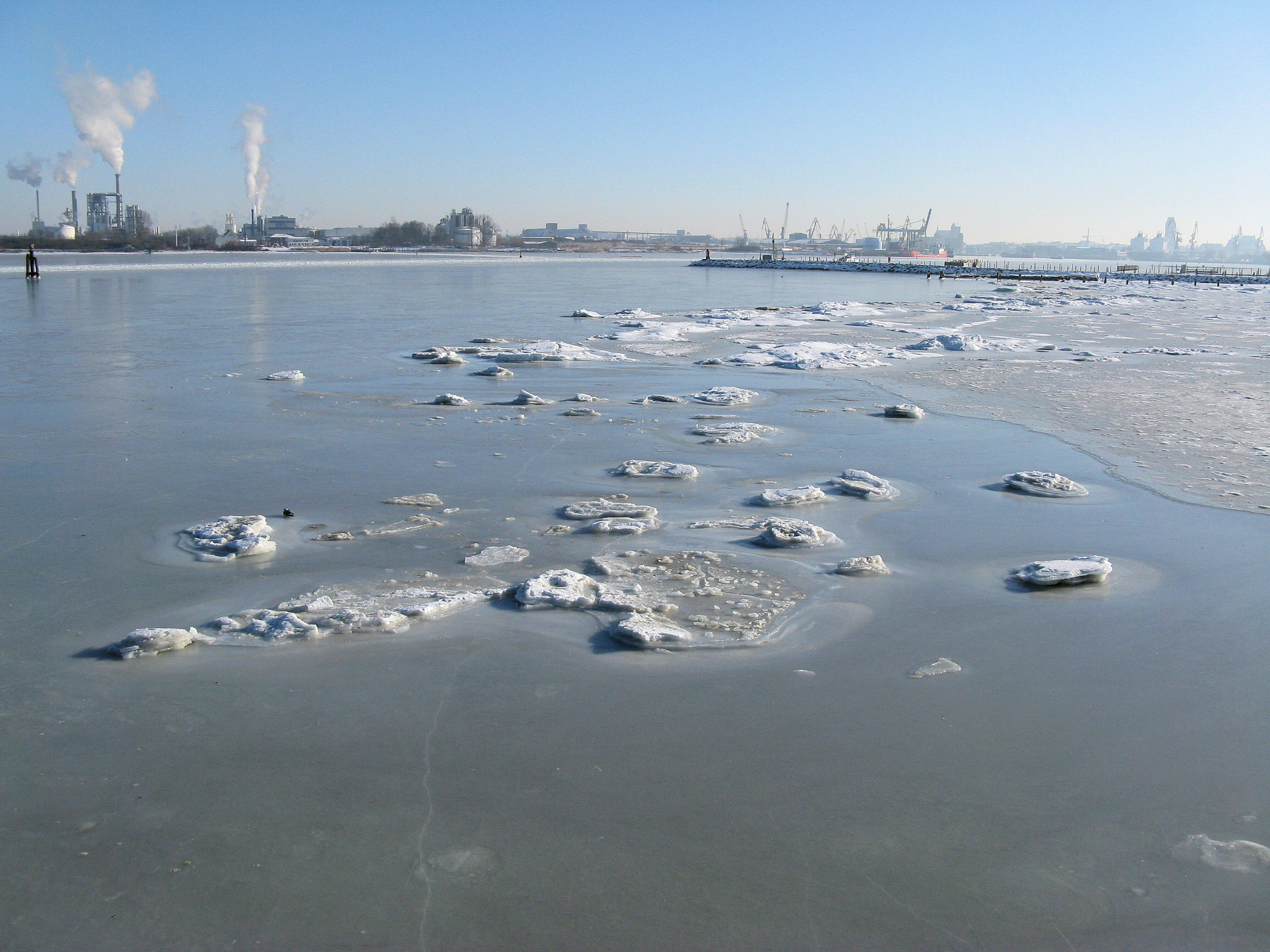 frozen baltic sea at coast, in the background: harbour and industrial park in Wismar, Mecklenburg-Vorpommern, Germany